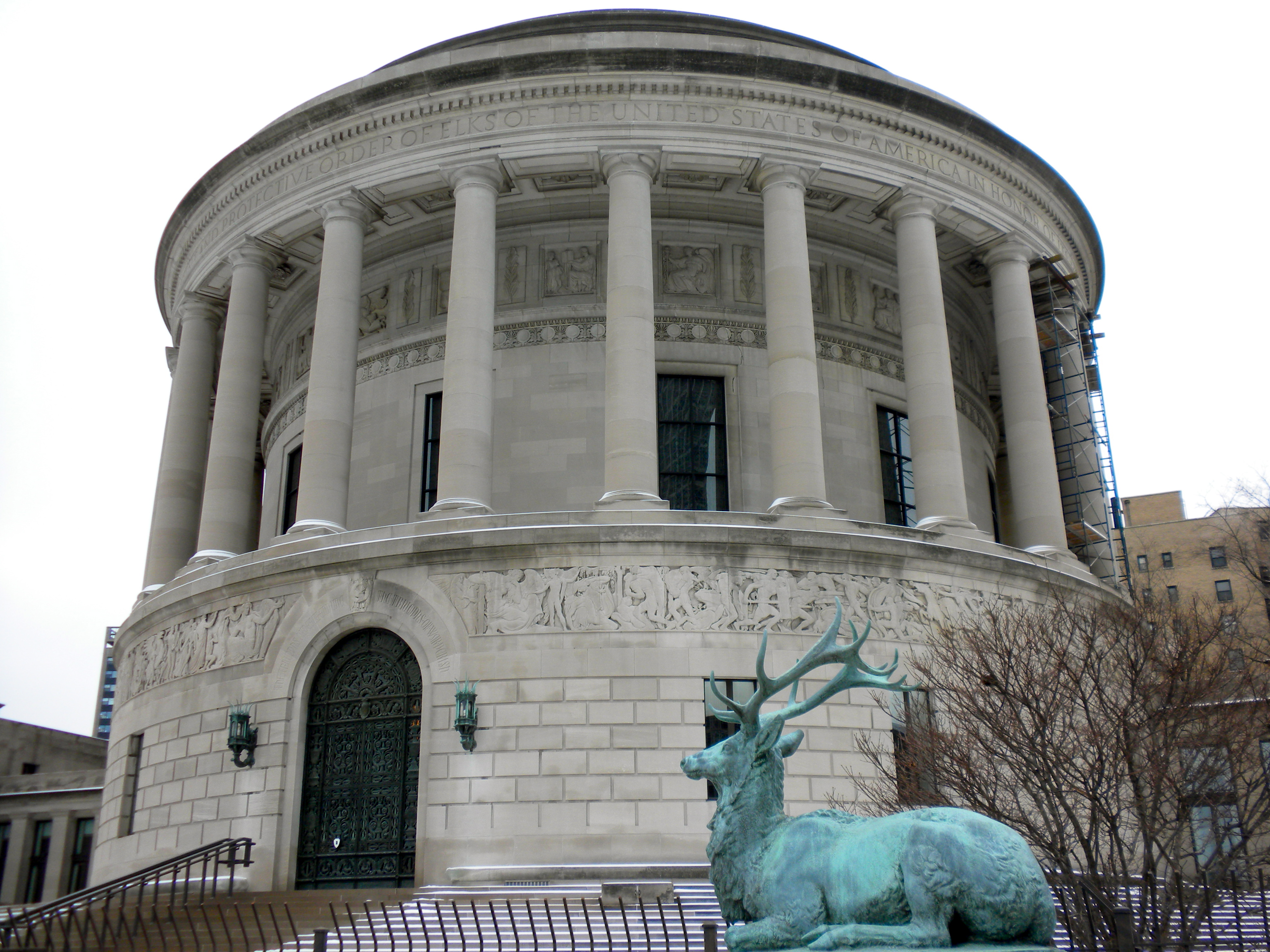 The Elks Building and Statue in Lincoln Park, Chicago at Diversy and Sheridan (sp?). National HQ of the BPOE